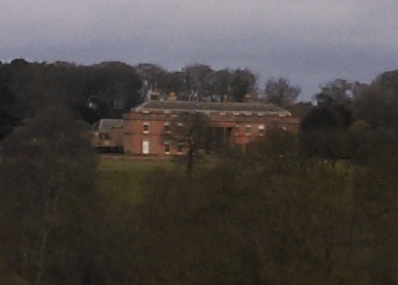 Photograph of Burn Hall, Durham taken from East Coast Main Line